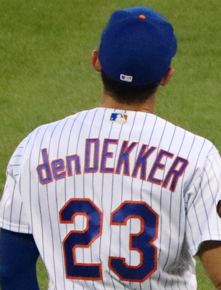 Matt den Dekker jersey back